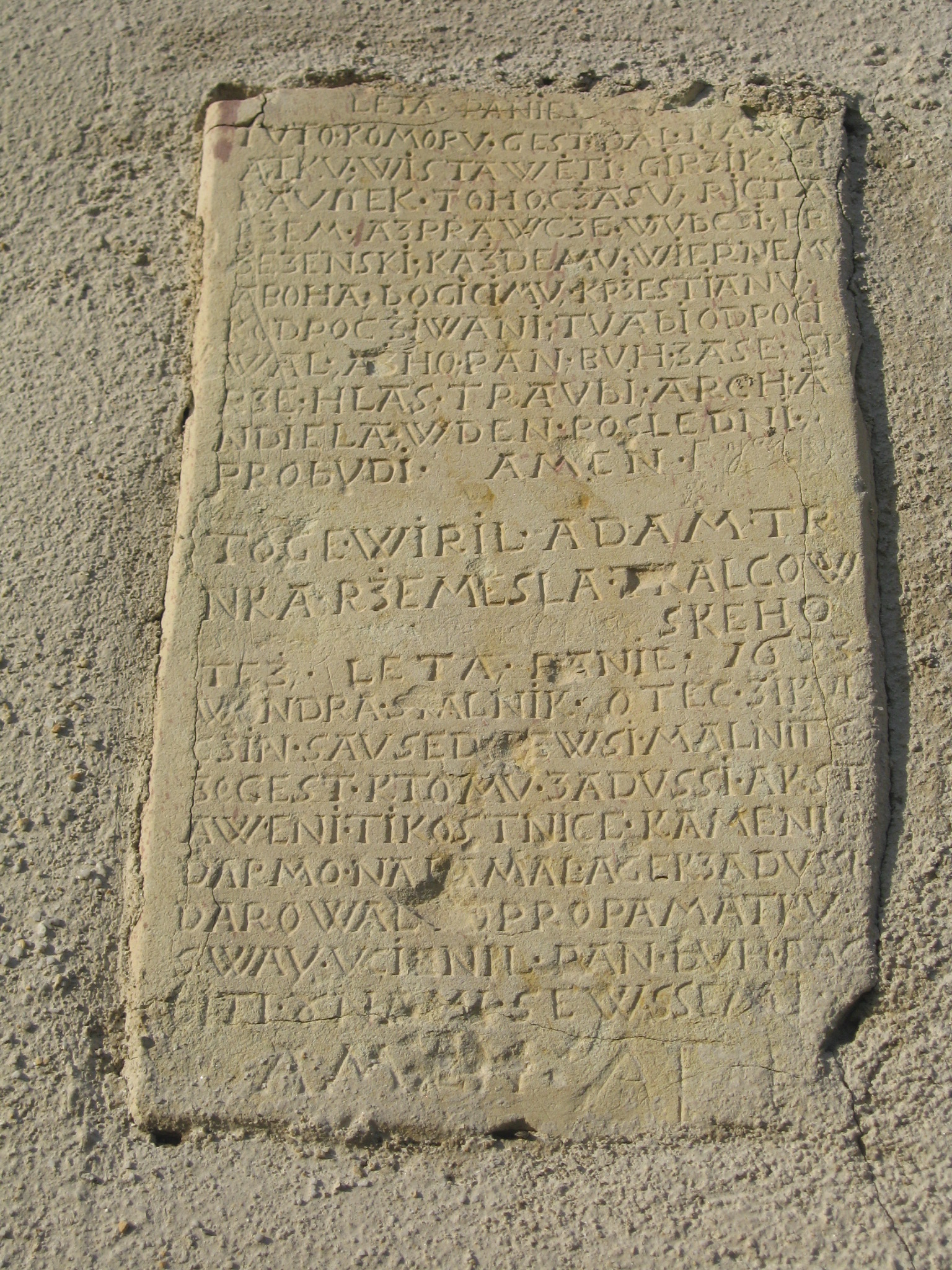 Epigraph on the bell tower in Skupice, Czech Republic